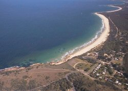 Moruya Heads, looking south